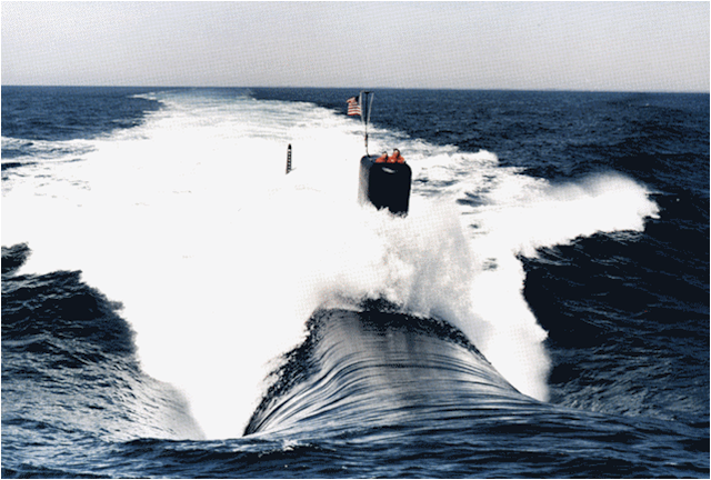 Photo of Los Angeles Class submarine on surface (approaching view). Used as cover photo of Introductory lecture from US Naval Academy course SP222 – Electricity and Magnetism I